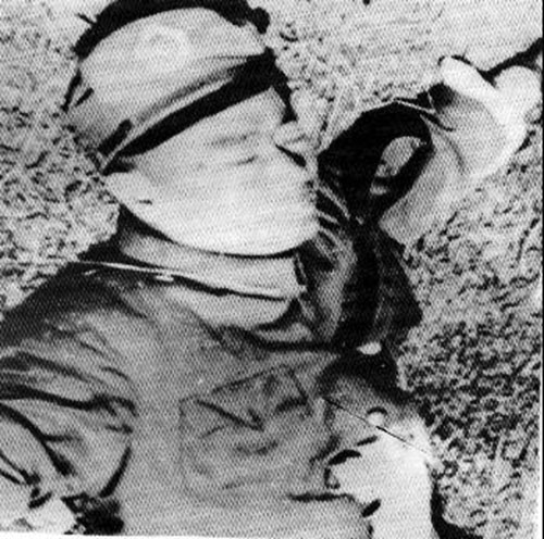 The dead body of Hu Ruoyu (Yunnan) (1894 - 1949)